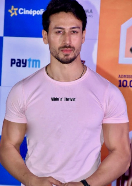 Tiger Shroff promoting Student of the Year 2 in 2019